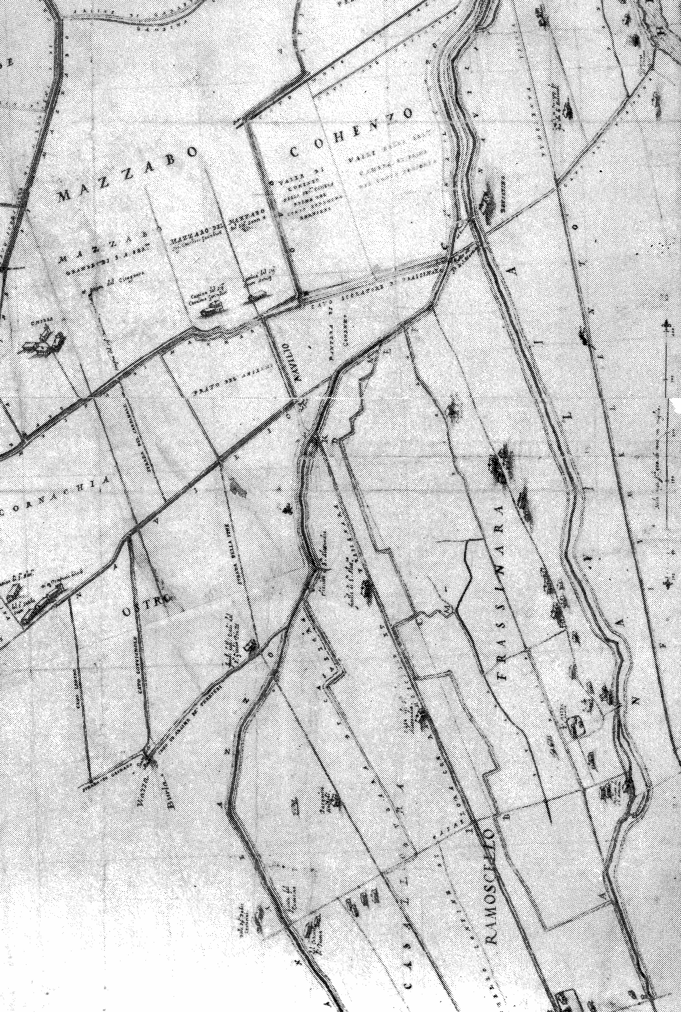 Old map of Frassinara Ramoscello and Coenzo territories and rivers